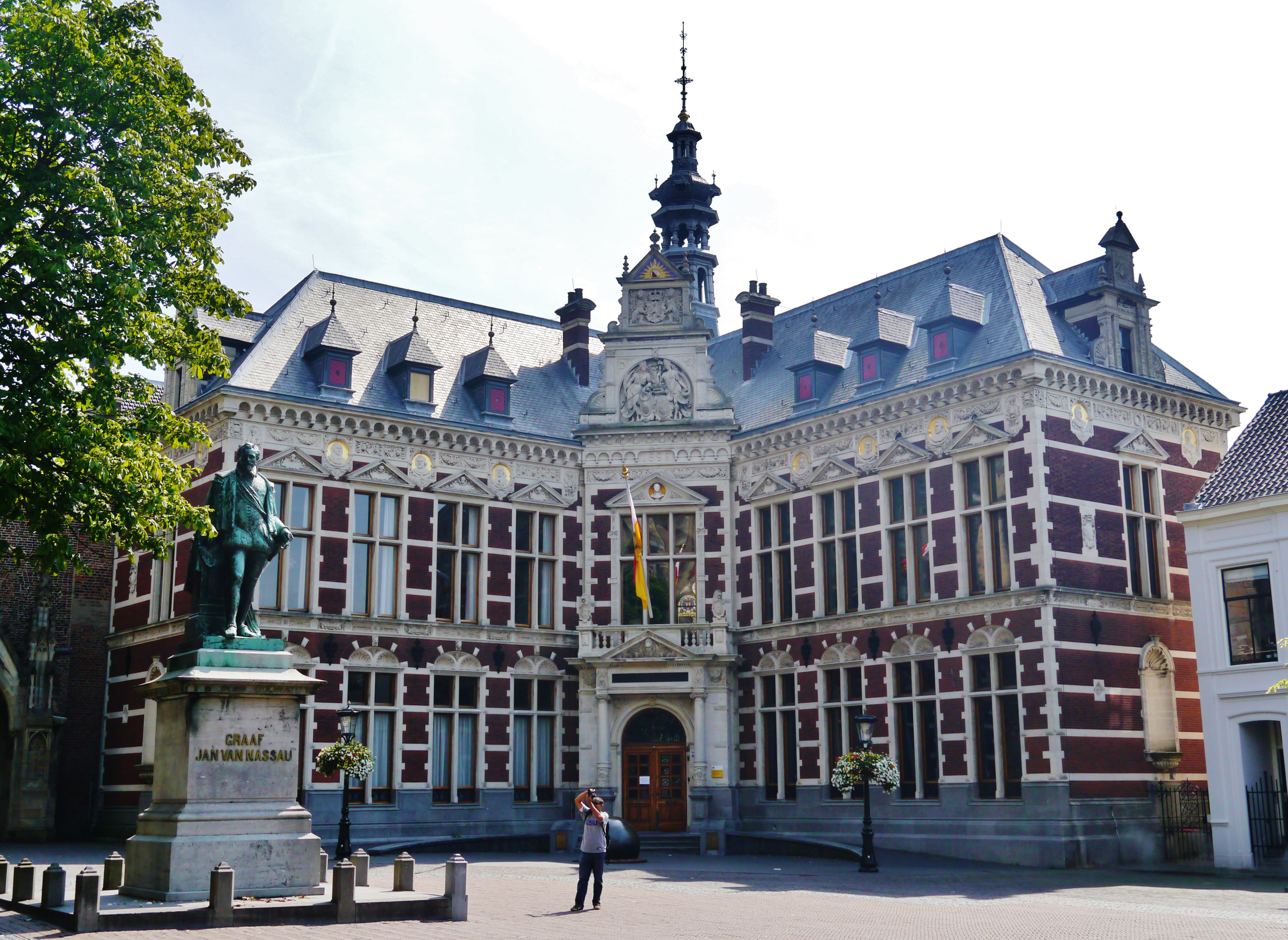 Academy Building of Utrecht University, Province of Utrecht, Netherlands